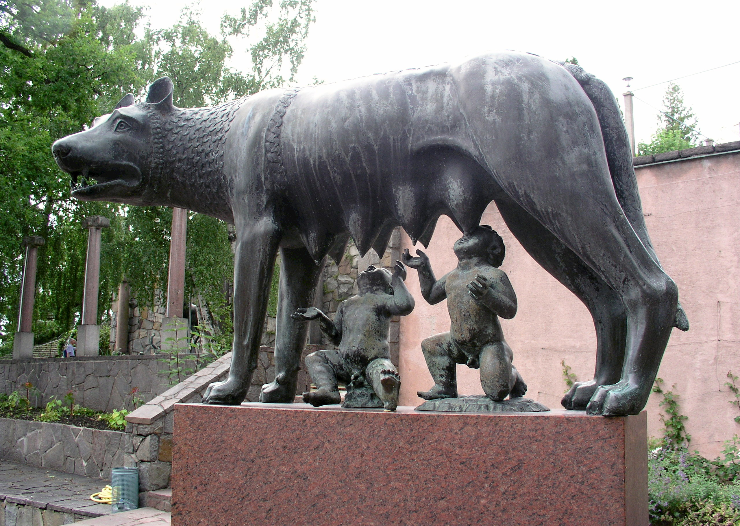 Romulus and Remus and the wolf. Replica from etruscian statue in Rom, made by Carl Milles. Millesgården, Lidingö, Sweden.